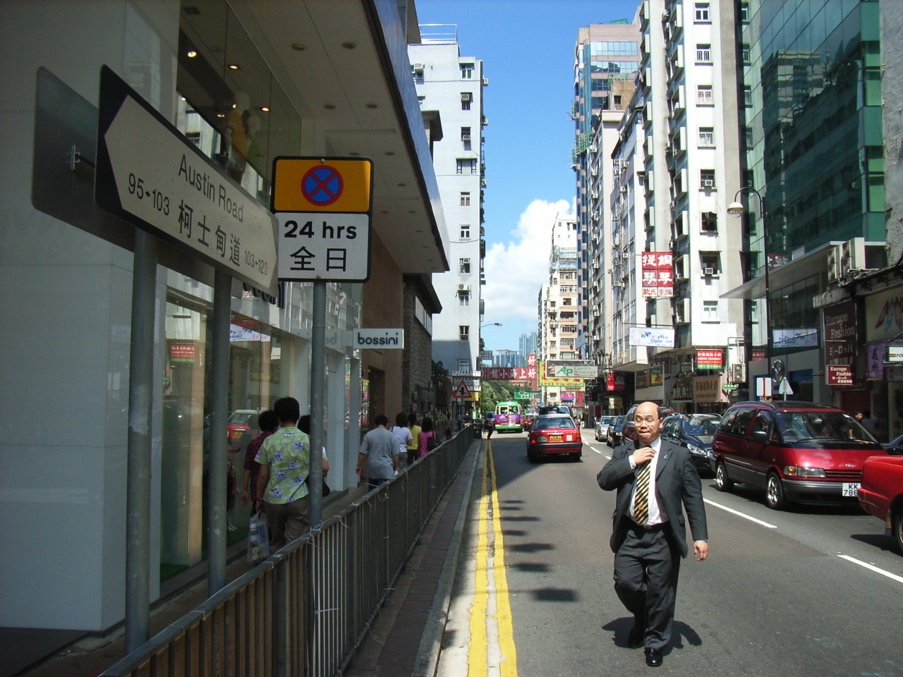 Austin Road, TST, Kln Photo by TonySKTO